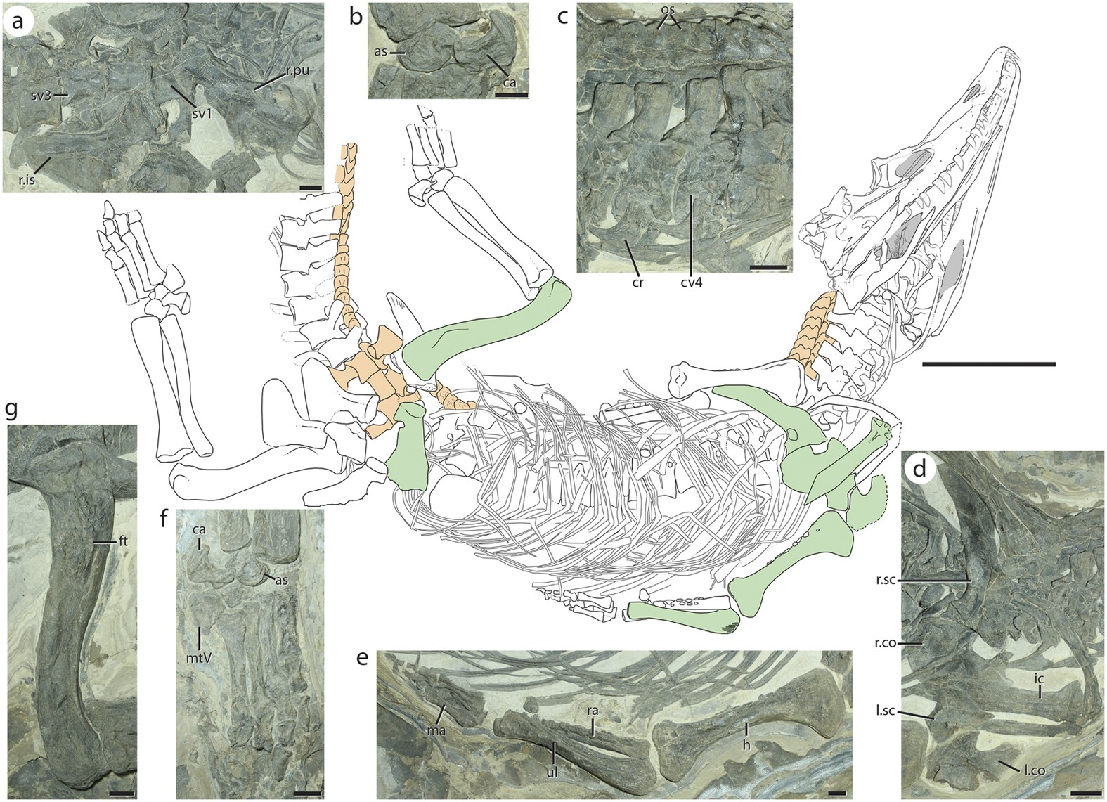 Holotype specimen of Diandongosuchus fuyuanensis (ZMNH M8770) in ventral view with relevant postcranial features shared with Phytosauria (in green) and elements with features not found in other phytosaurs (in orange). (a) Partially disarticulated pelvis, showing pubic notch and three sacral vertebrae; (b) ankle showing a crocodylian-normal pattern; (c) cervical region, showing anteroposteriorly short cervical vertebrae and two paramedian columns of osteoderms; (d) pectoral region, showing broad interclavicle, backswept scapular blade, and hooked anterior process of the coracoid, (e) left forelimb elements, showing straight lateral margin of the humerus and flattened distal end of the ulna; (f) left pes, with metatarsal IV as the longest; (g) right femur in posterior view, showing folded 4th trochanter. Scale bar for line drawing = 10 cm; scale bars for all other images = 1 cm.